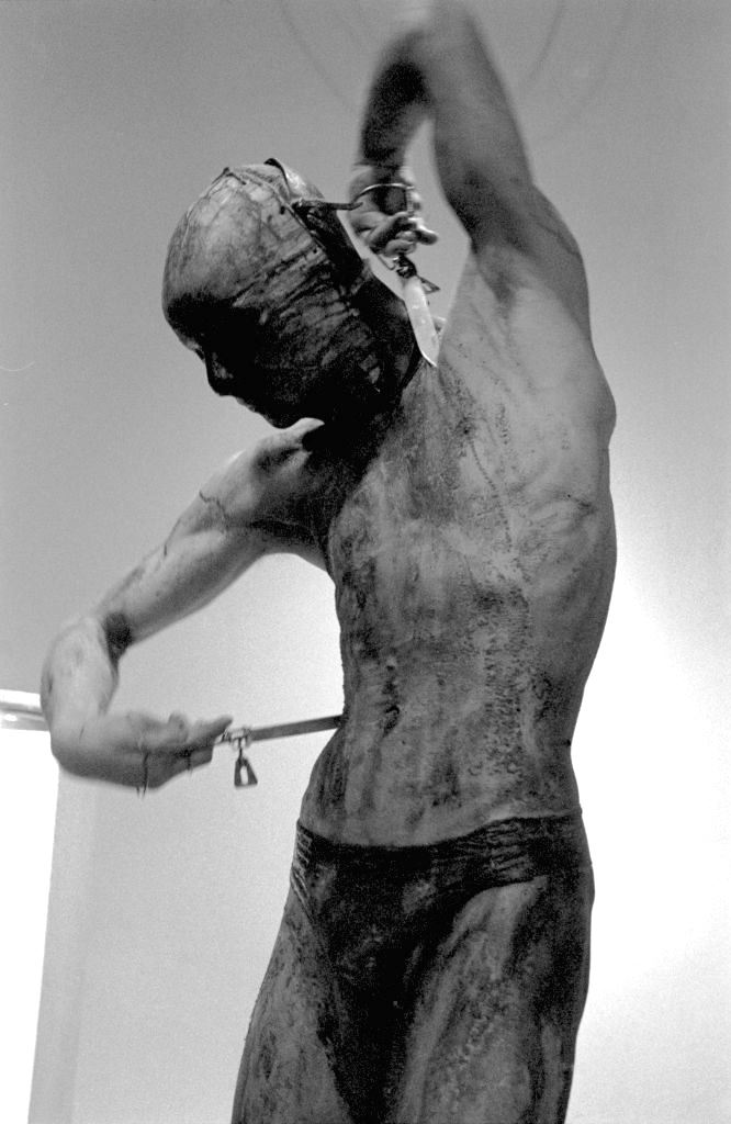 "Der Mutterseelenalleinering", solistische Auto-Perforations-Artistik von Micha Brendel